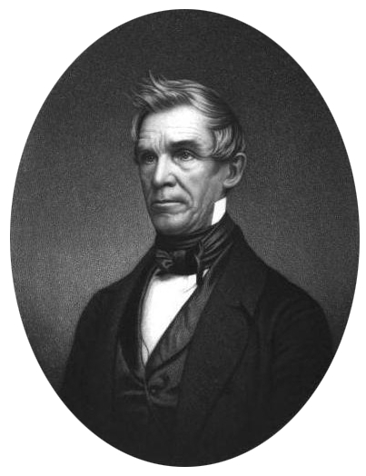 Governor Henry Dutton, from Livingston, John. Portraits of Eminent Americans Now Living: With Biographical And Historical Memoirs of Their Lives And Actions. New York: Cornish, Lamport & Co., 1853-54.